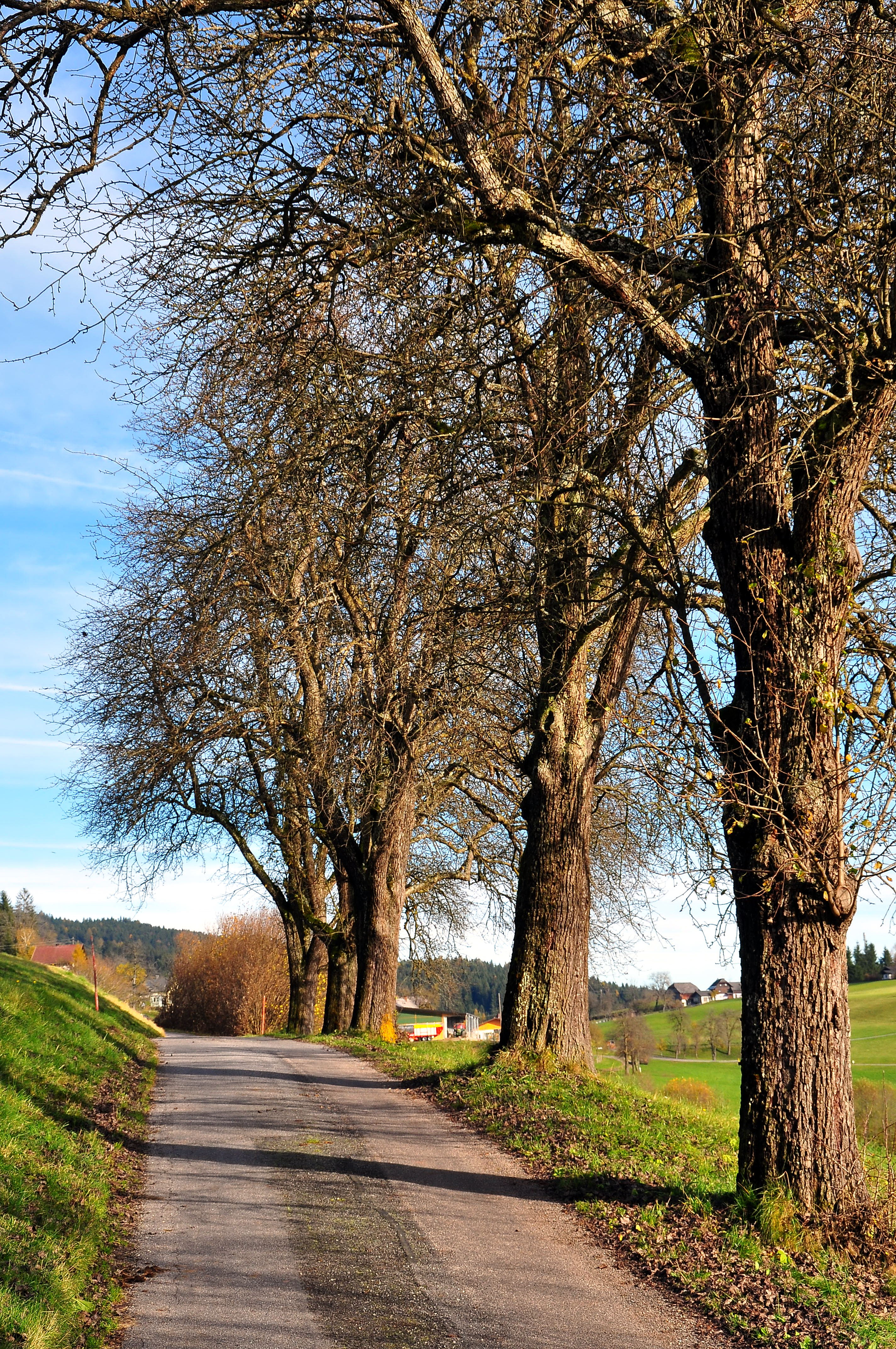 Autumnal pear Pyrus communis avenue near Köstenberg, market town Velden am Wörther See, district Villach Land, Carinthia, Austria, EU